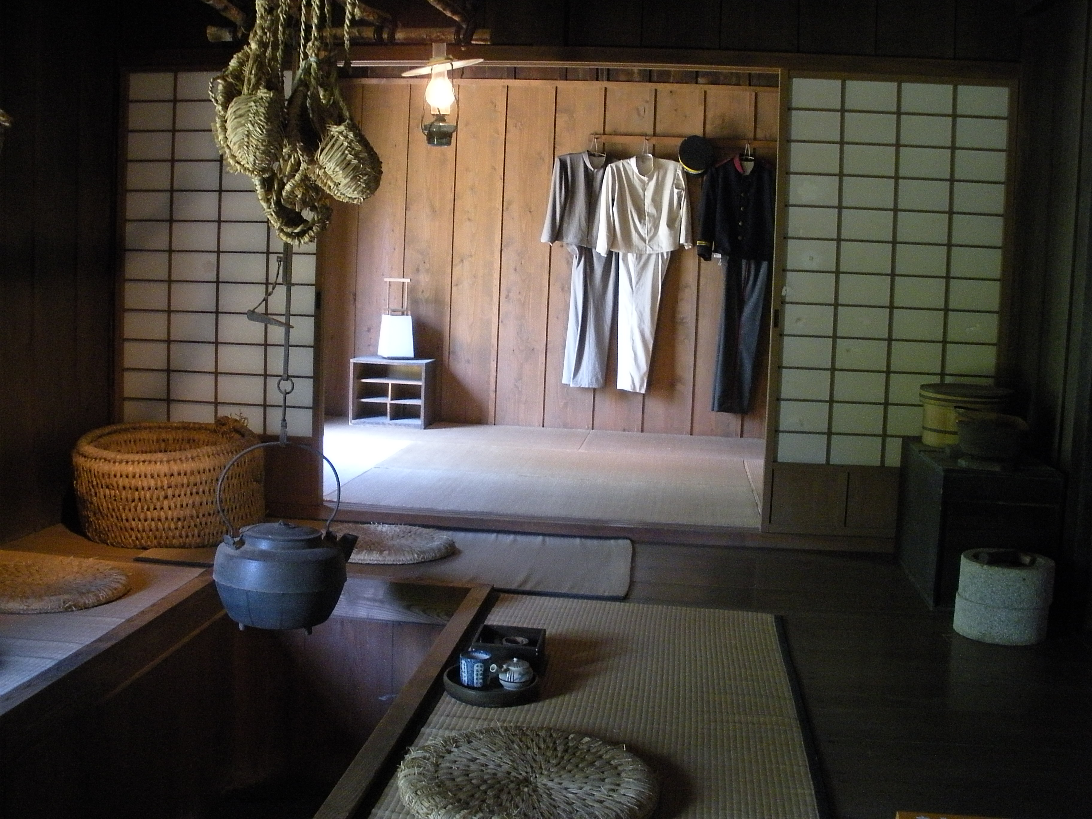 Home interior colonizers Hokkaido. Historical Village of Hokkaid. Atsubetsuch-konopporo, Atsubetsu-ku, Sapporo, Japan.